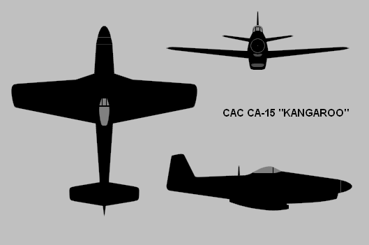 Three view of the CA-15 Kangaroo